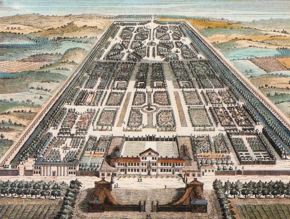 A copper engraving of the Hanover Herrenhäusen: the castle and gardens.